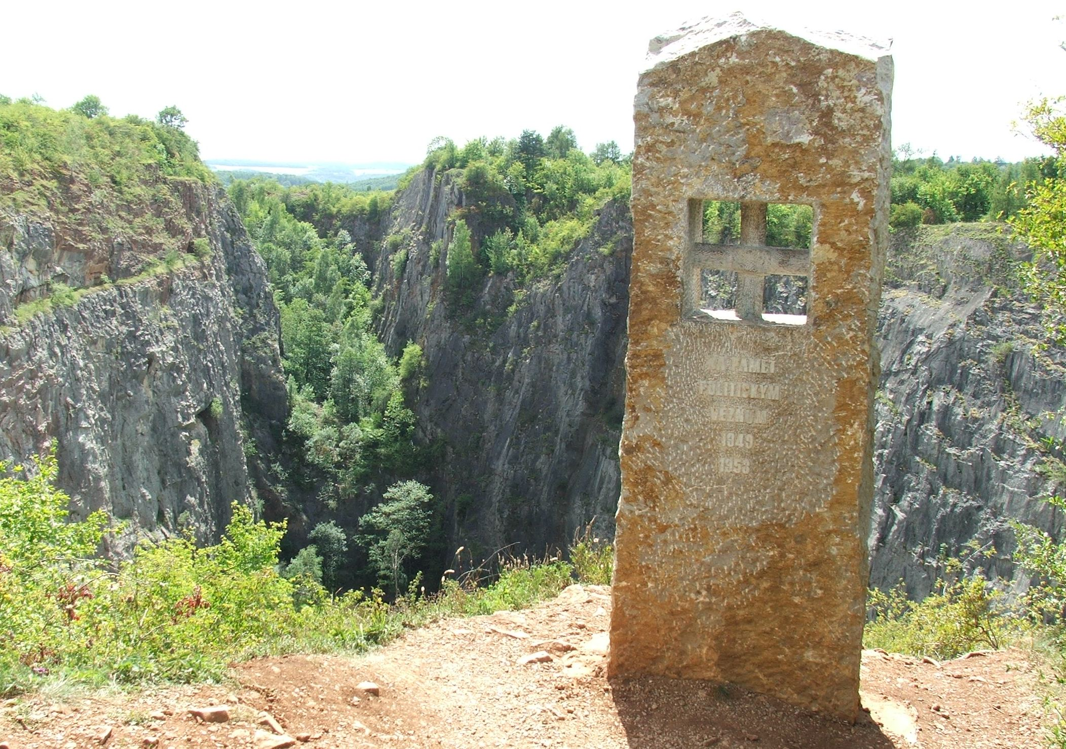 Mořina - so called Mexiko quarry, former communist forced labour camp in Czechoslovakia was here. "To the memory of political prisoners 1949-1953)